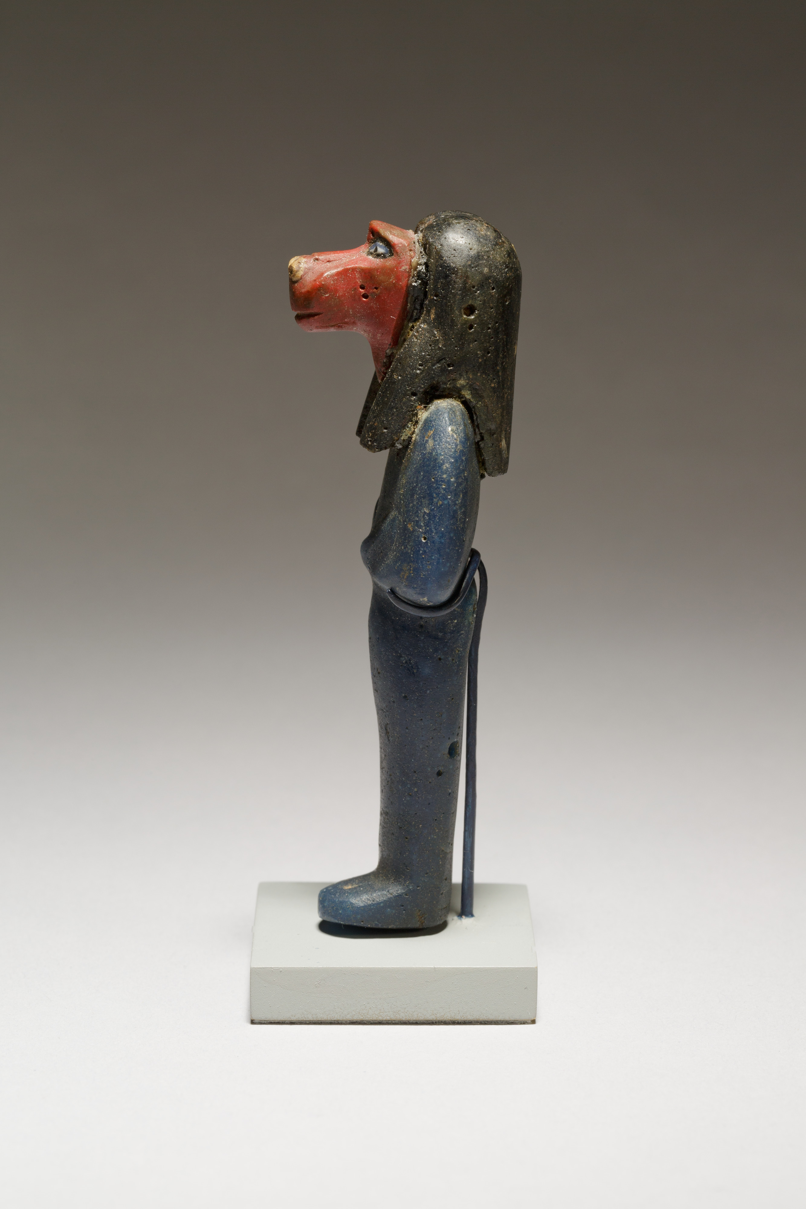 Funerary figure, Hapy